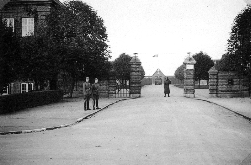 Ringsted Barracks during the German occupation